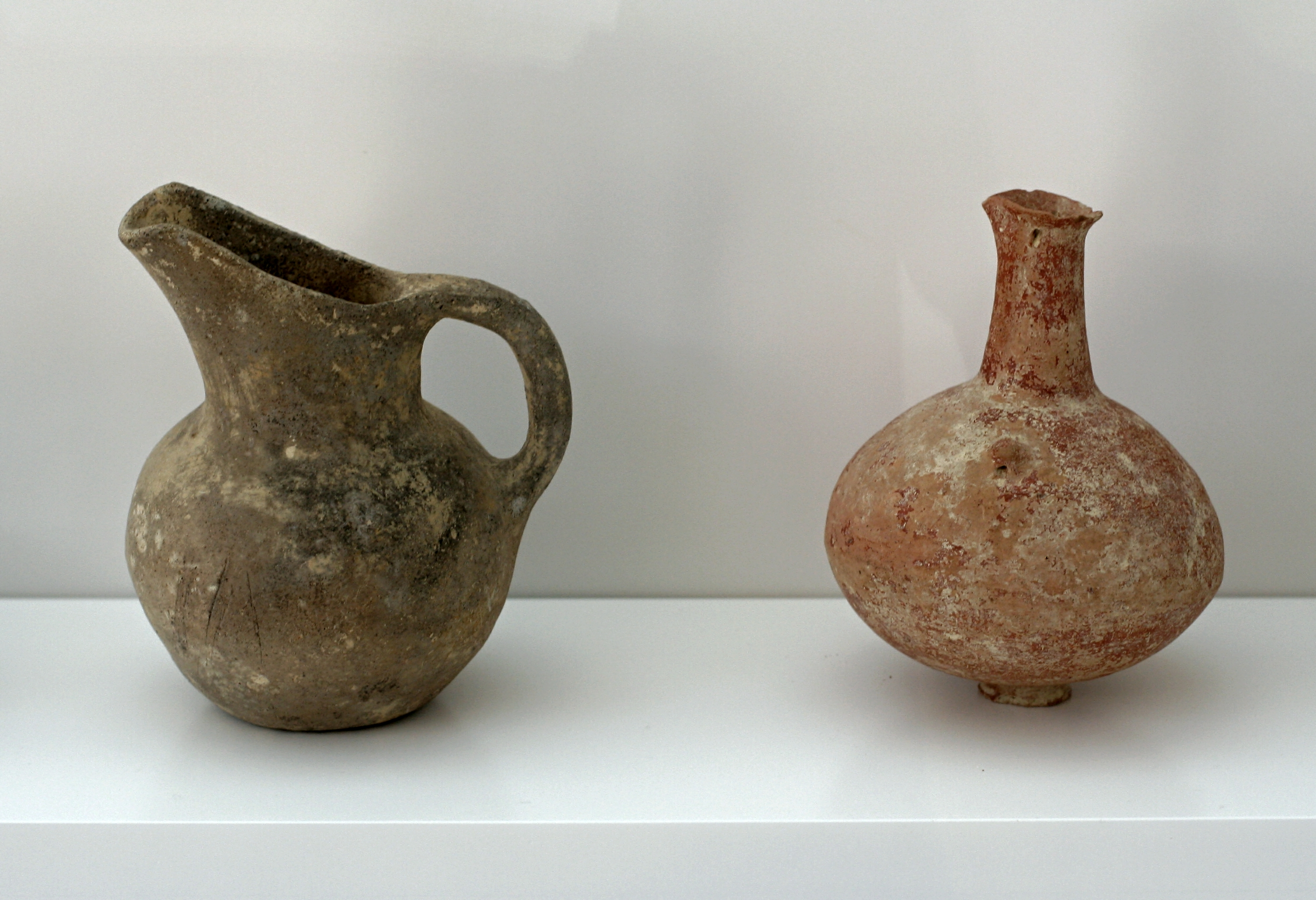 Early Minoan pottery. Burial site in Agia Fotia near Siteia (Sitia), 3000-2500 BC. Archaeological Museum of Agios Nikolaos.